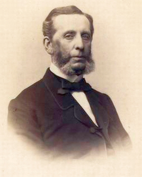 Pyotr Valuev